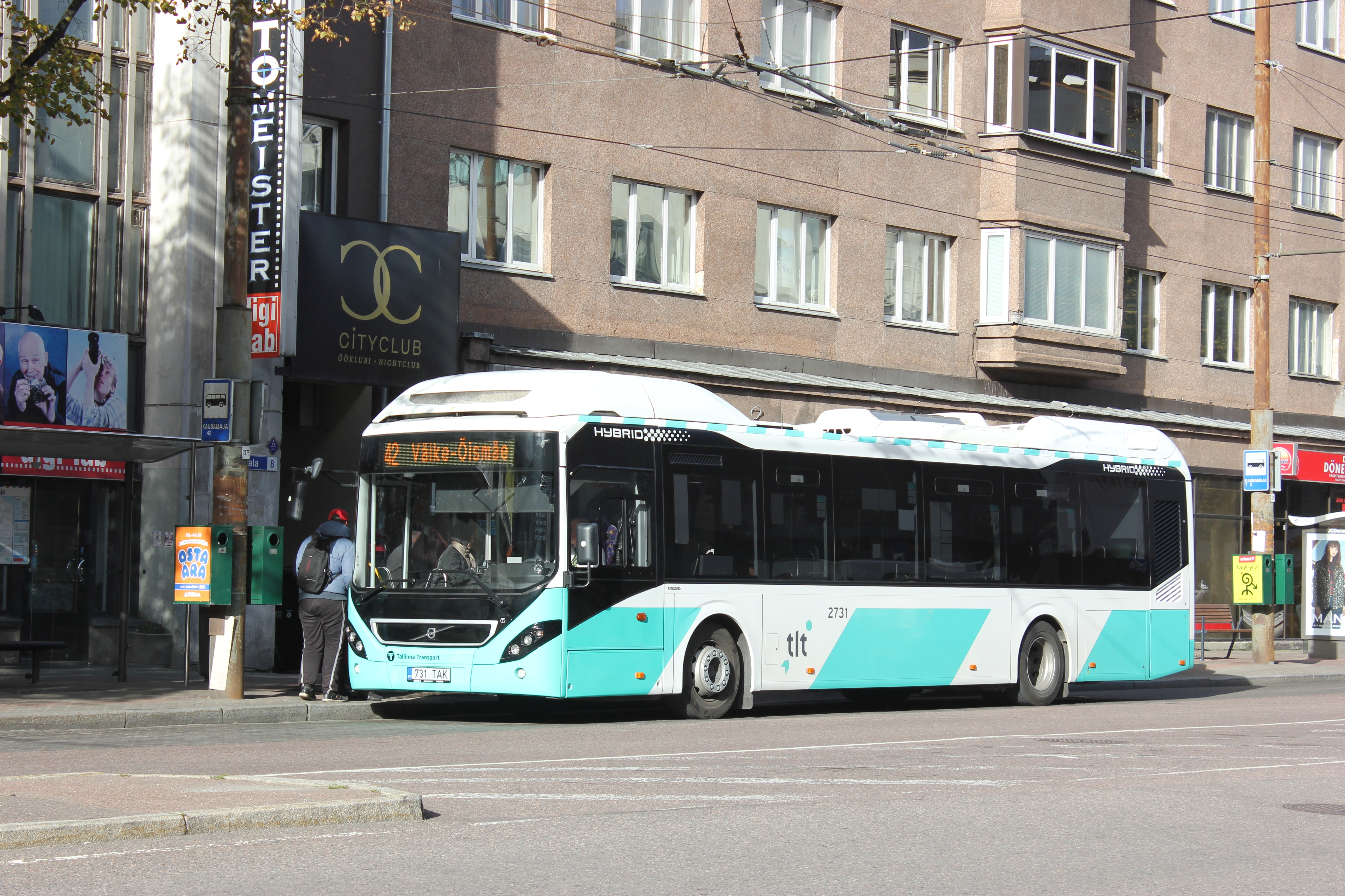 Tallinn - Volvo 7900 Hybrid bus #2731 on line No. 42